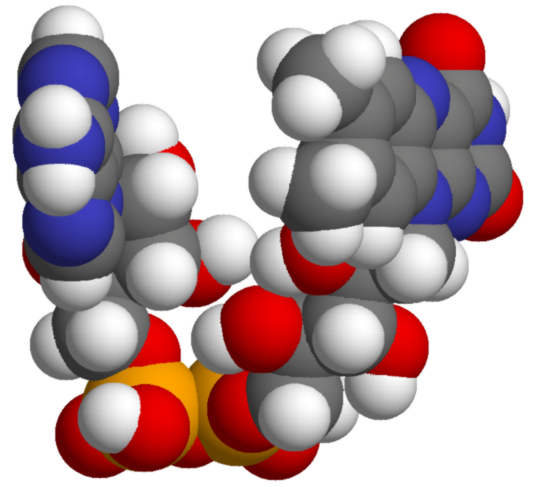 space-filling model of FAD